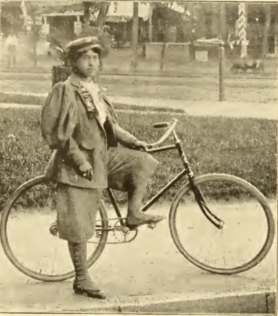 Kittie Knox featured in The Bearings July 18, 1895